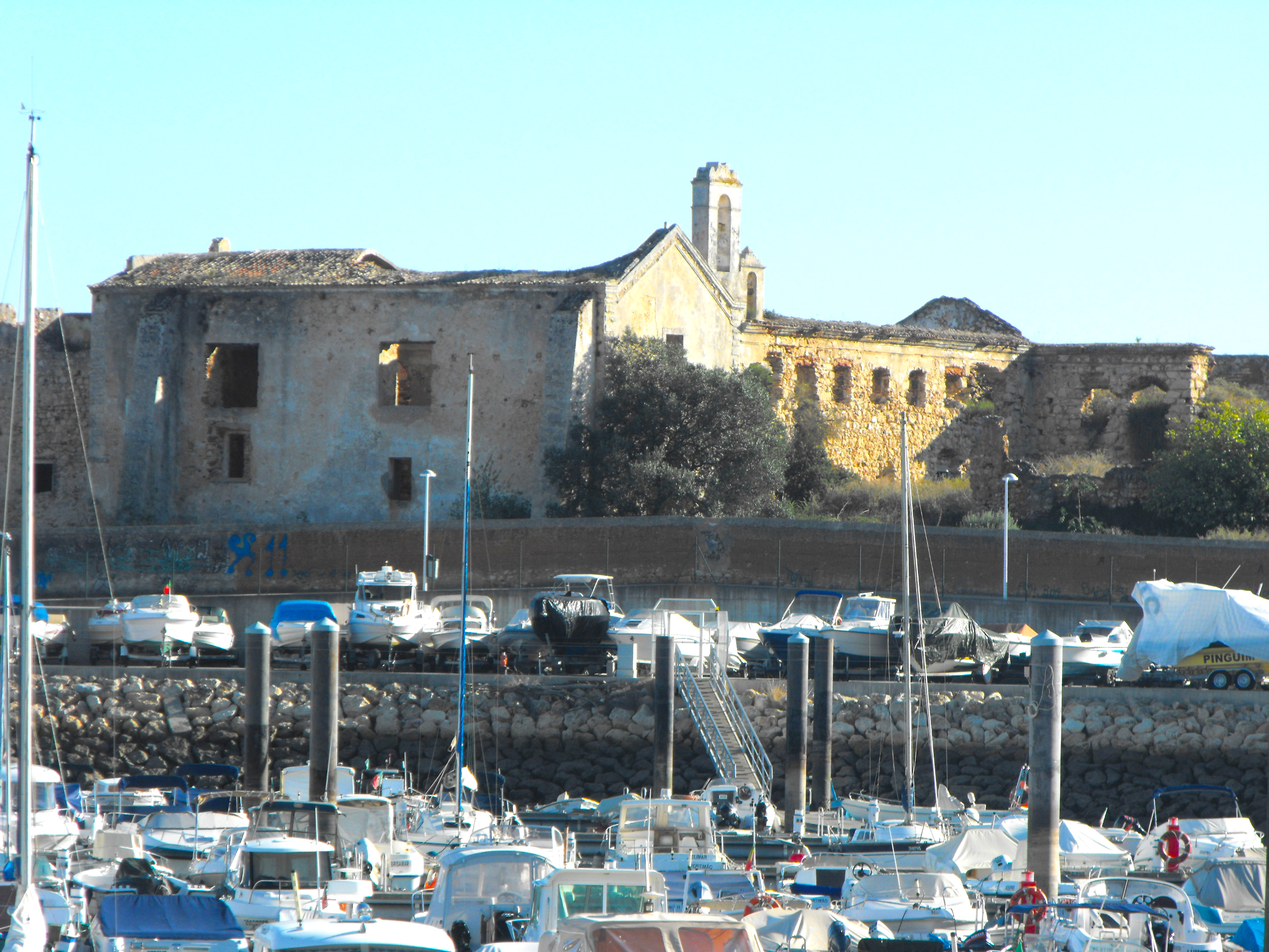 This file was uploaded for Wiki Loves Monuments in Portugal with the unique identifier 74641.